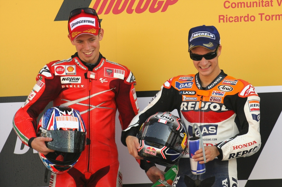 Casey Stoner and Dani Pedrosa, celebrating on the podium after finishing in second and first position at the 2007 Valencian Community Grand Prix.